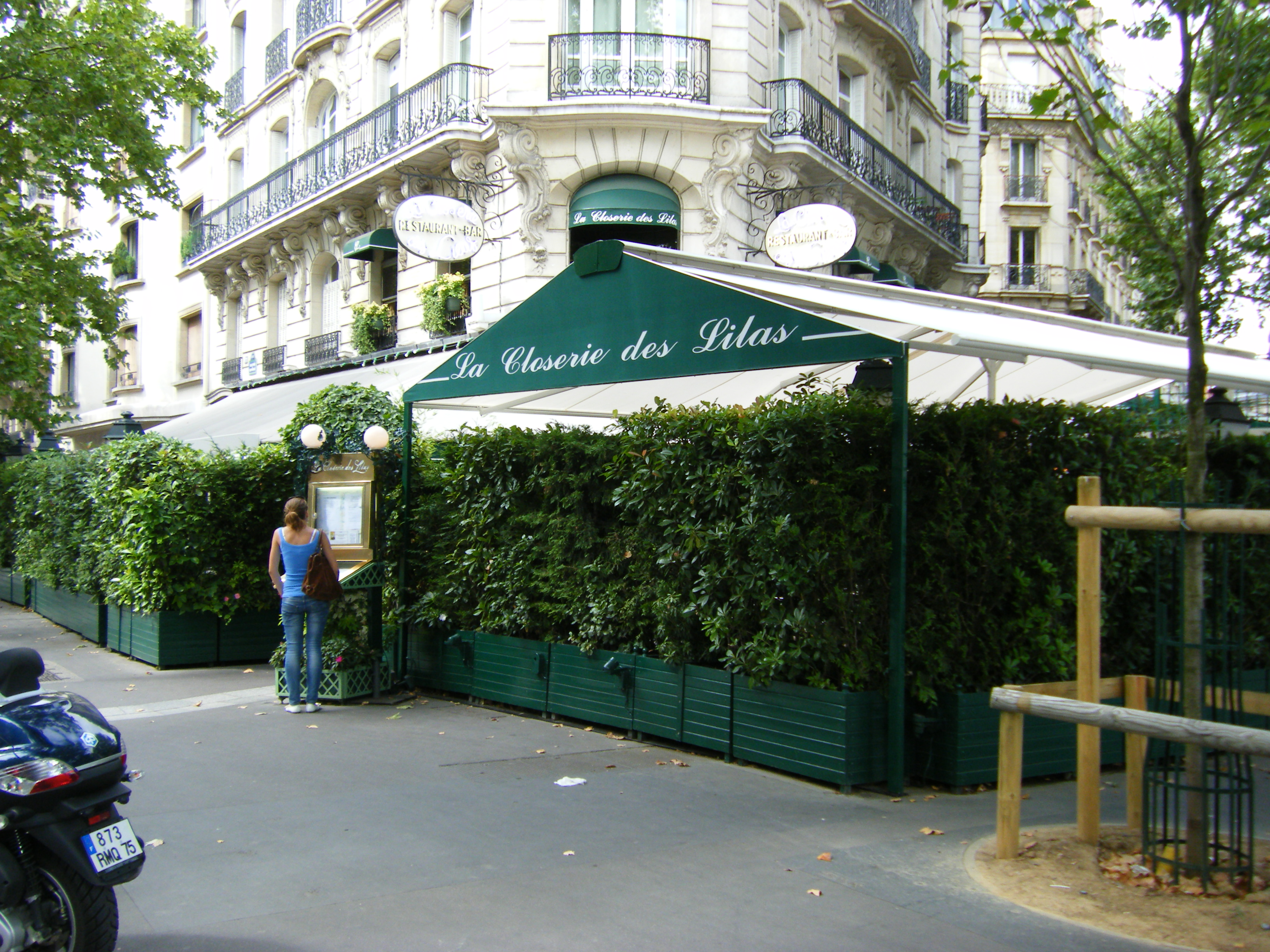 Cafè Closerie Des Lilas in Paris